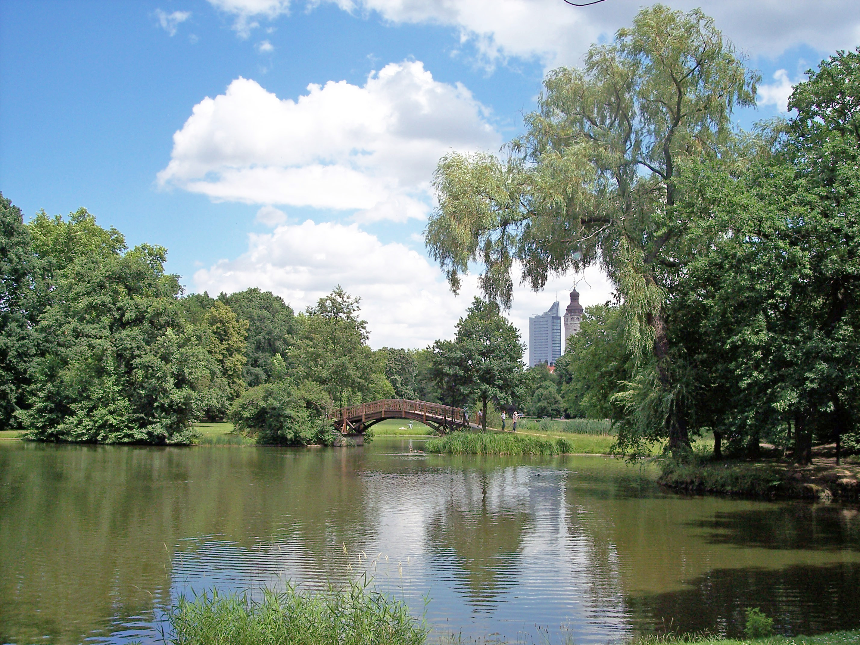 Johannapark in Leipzig, view over the pond to the east in the direction of “Cityhochhaus” and City Hall tower